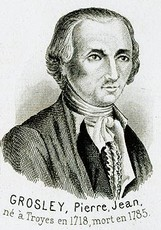 Pierre-Jean Grosley (1718-1785)